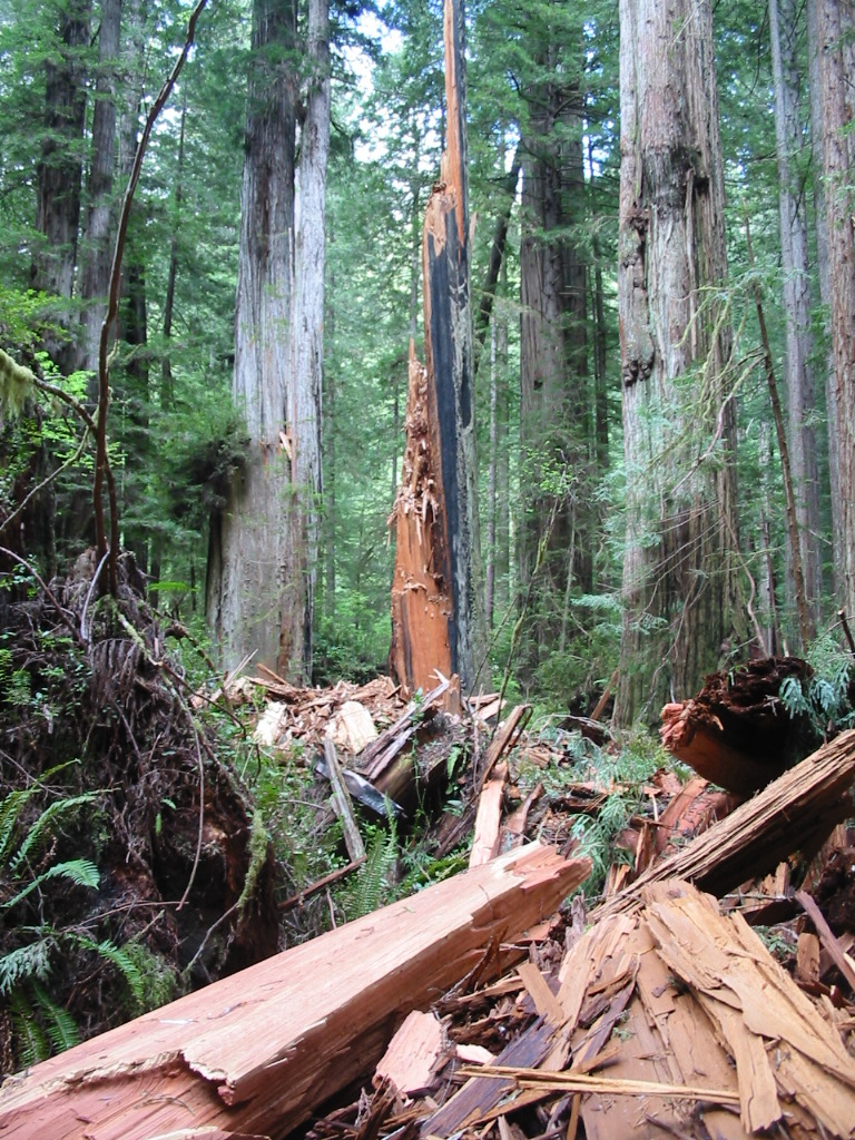 A redwood tree shattered by lightning, with shards thrown in every direction. Prairie Creek Redwoods State Park, California.